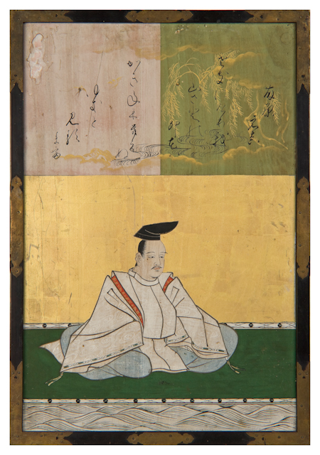 Sanjūrokkasen-gaku (Thirty-six Poetry Immortals framed picture) #33: Fujiwara no Motozane